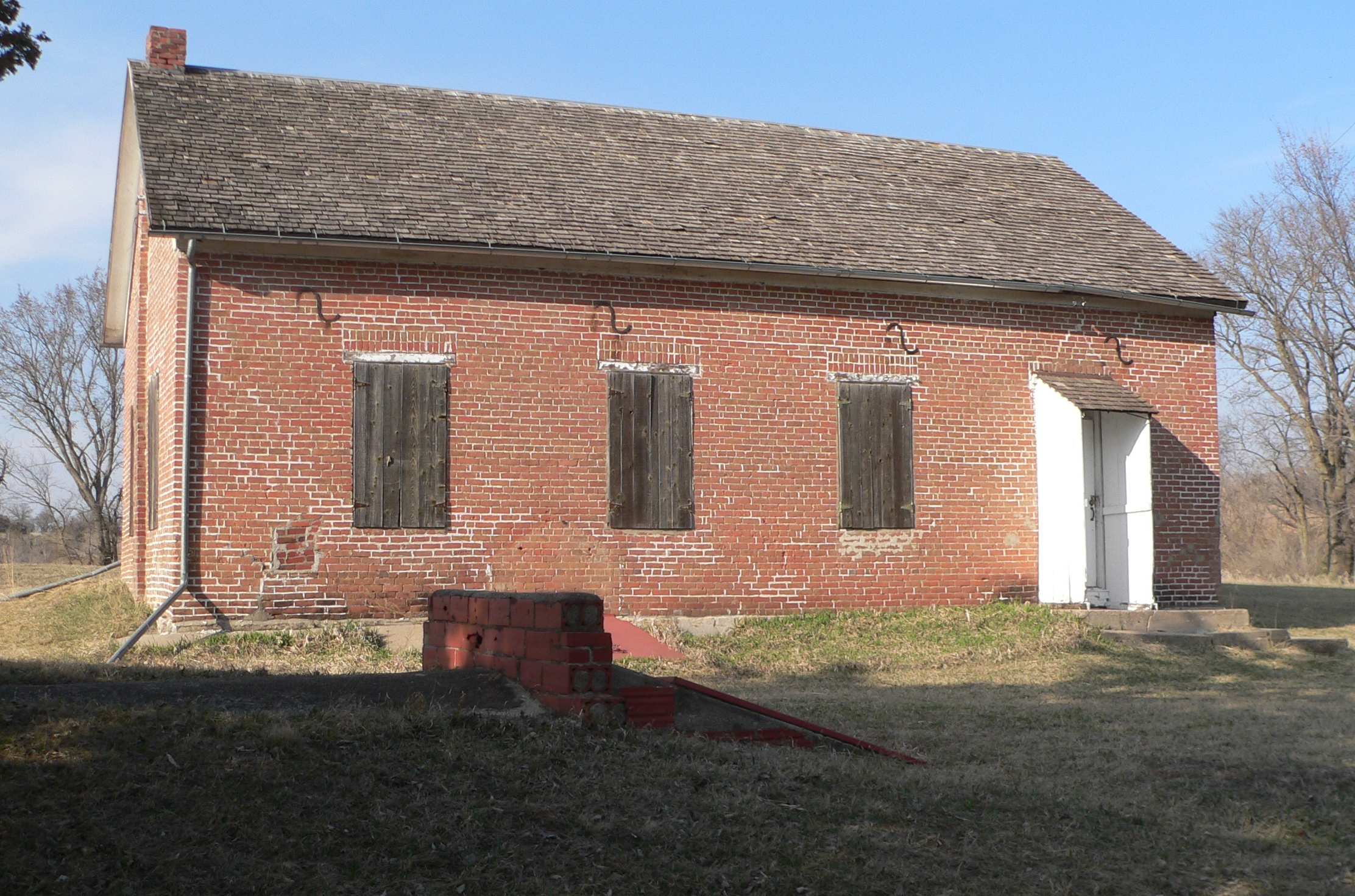 Rock Bluff School, formerly the Naomi Institute, located south of Plattsmouth in rural Cass County, Nebraska; seen from the south.